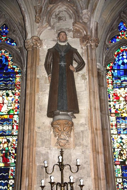 St Etheldreda, Ely Place, London EC1 - Nave statue St Swithin Wells